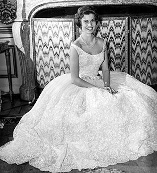 Princess Margaretha, 1958.